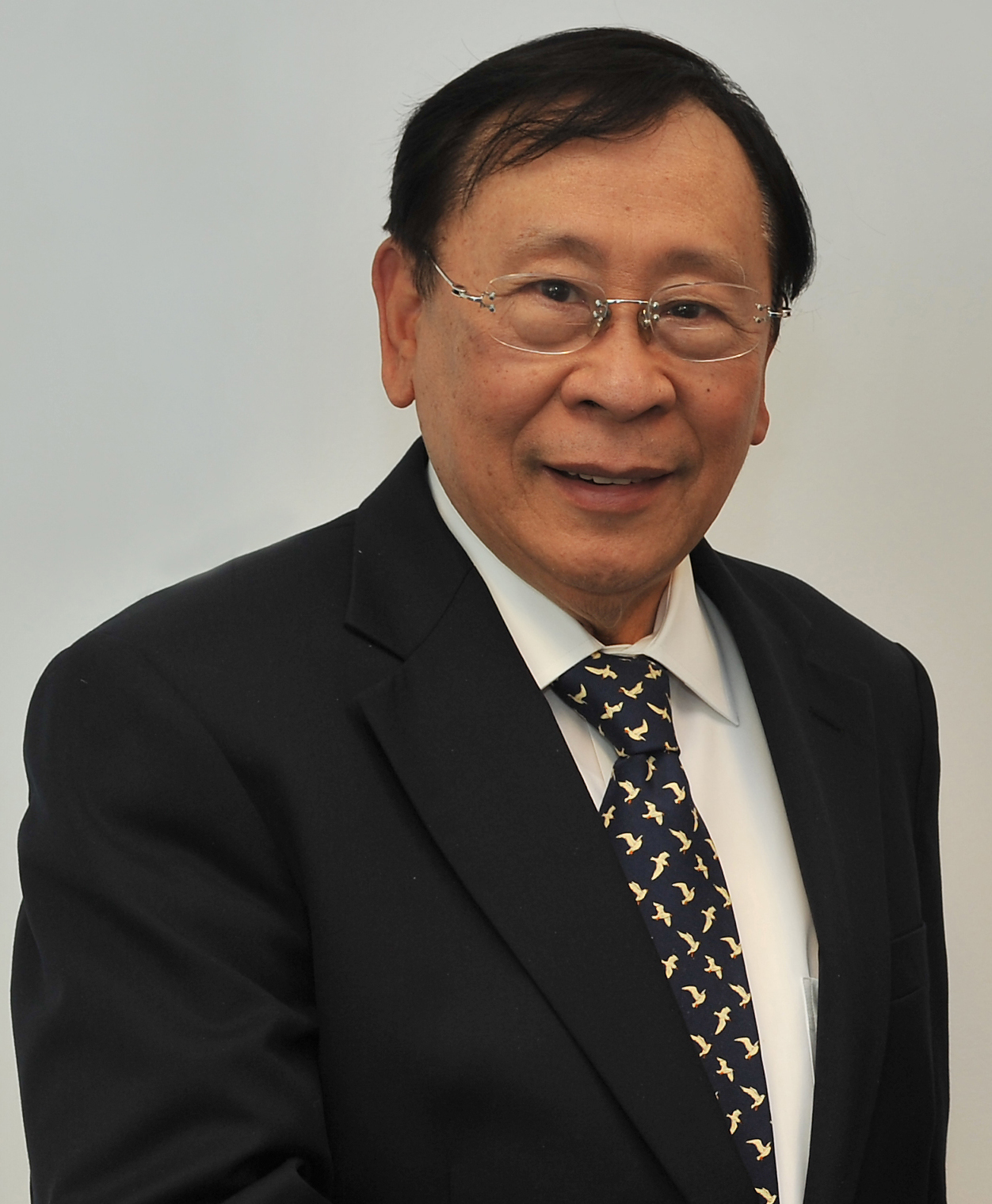 Visit of Mr. Alberto Gatmaitan Romulo, Secretary for Foreign Affairs of the Philippines to IAEA Director General Yukiya Amano. IAEA, Vienna, Austria, 3 March 2010